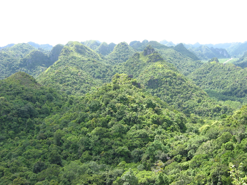 A view of Cat Ba National Park.